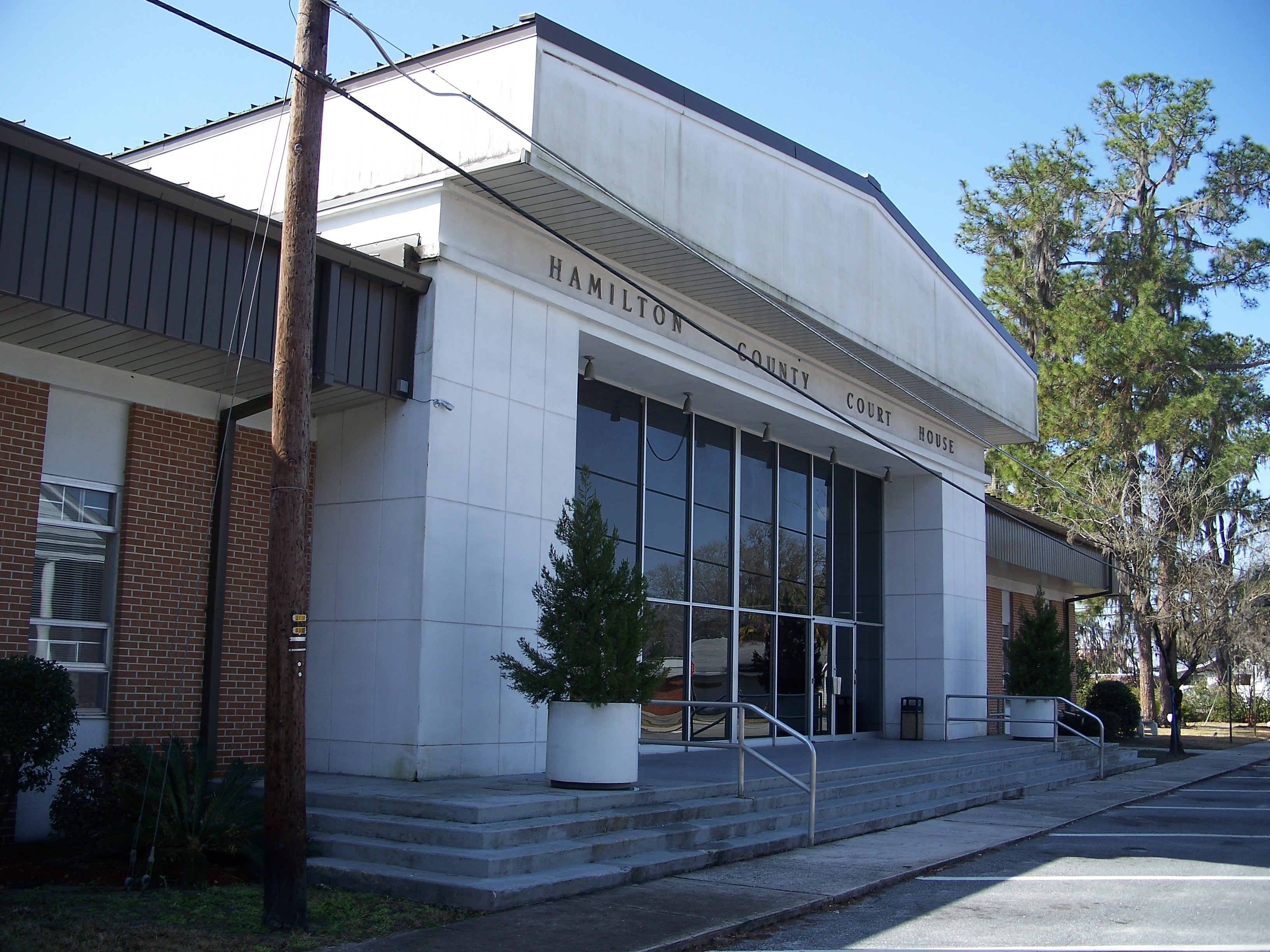 Jasper, Florida: Hamilton County Courthouse.